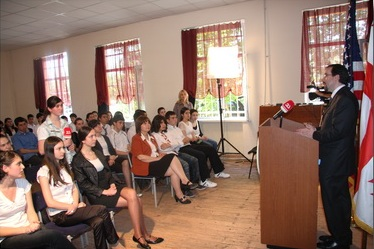 The U.S. Ambassador Bass speaks to the Georgian youth in Rustavi about democracy and elections